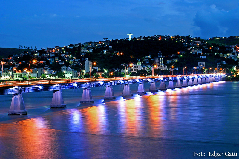 Nocturn view in Colatina, Espírito Santo, Brazil.